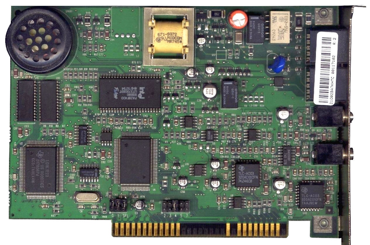 U.S. Robotics Sportster 56k model 117102 Canada ISA bus serial modem for telephone lines. The “front” or “bottom” side.